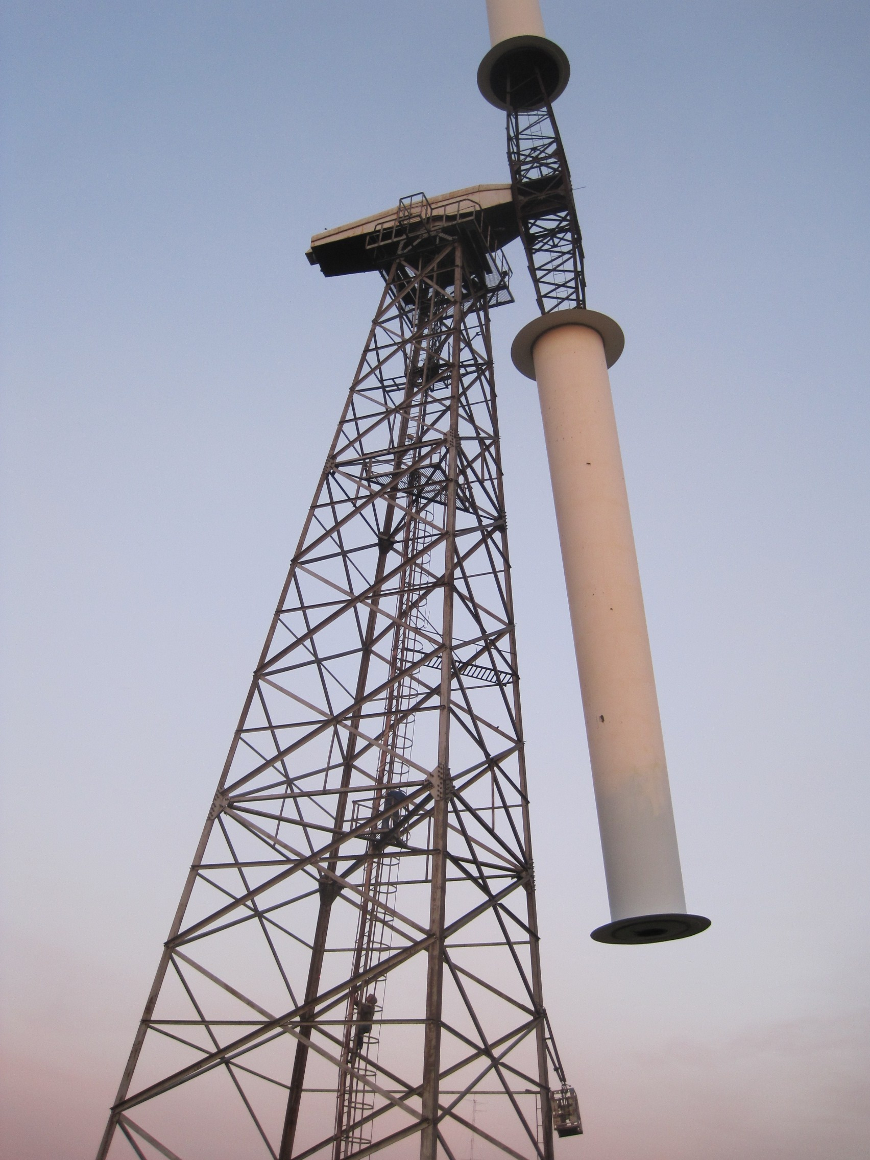 This 250 kW wind turbine has two opposing cylindrical rotors (Flettner rotors). It belongs to the International Sakharov Environmental University and is located 400 meters east of Yankovtsy (near Volma), Dzerzhinsk region, Belarus. Object location53° 53′ 12.38″ N, 26° 58′ 56.58″ E